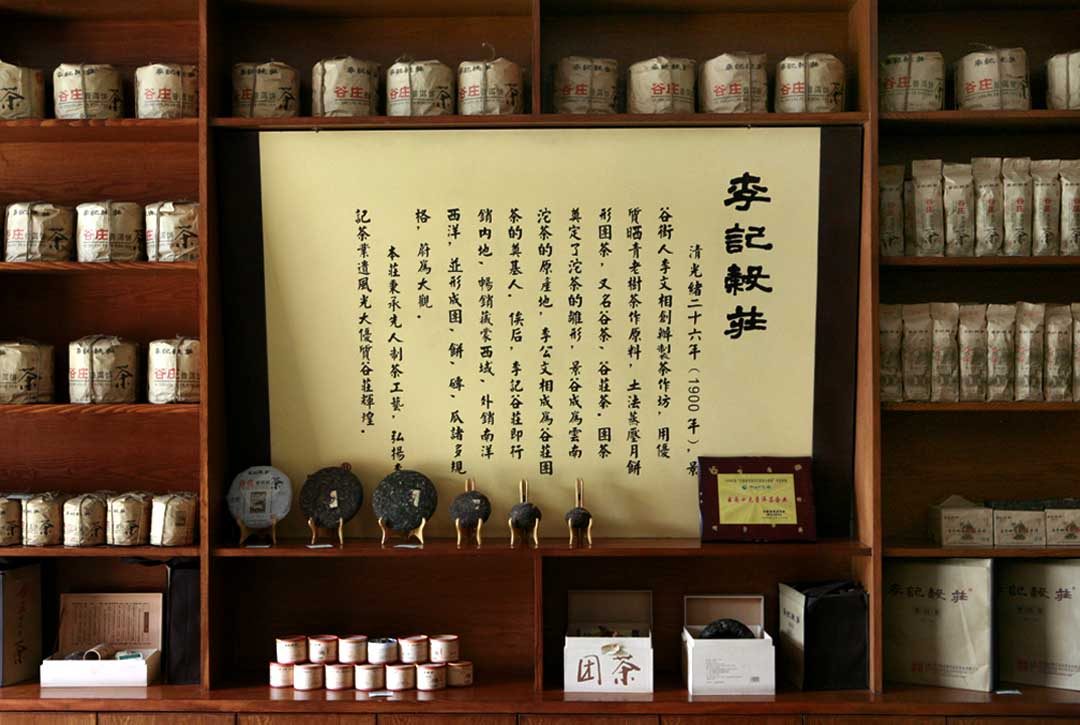 High quality tea for sale in the tea market of Kunming, China.